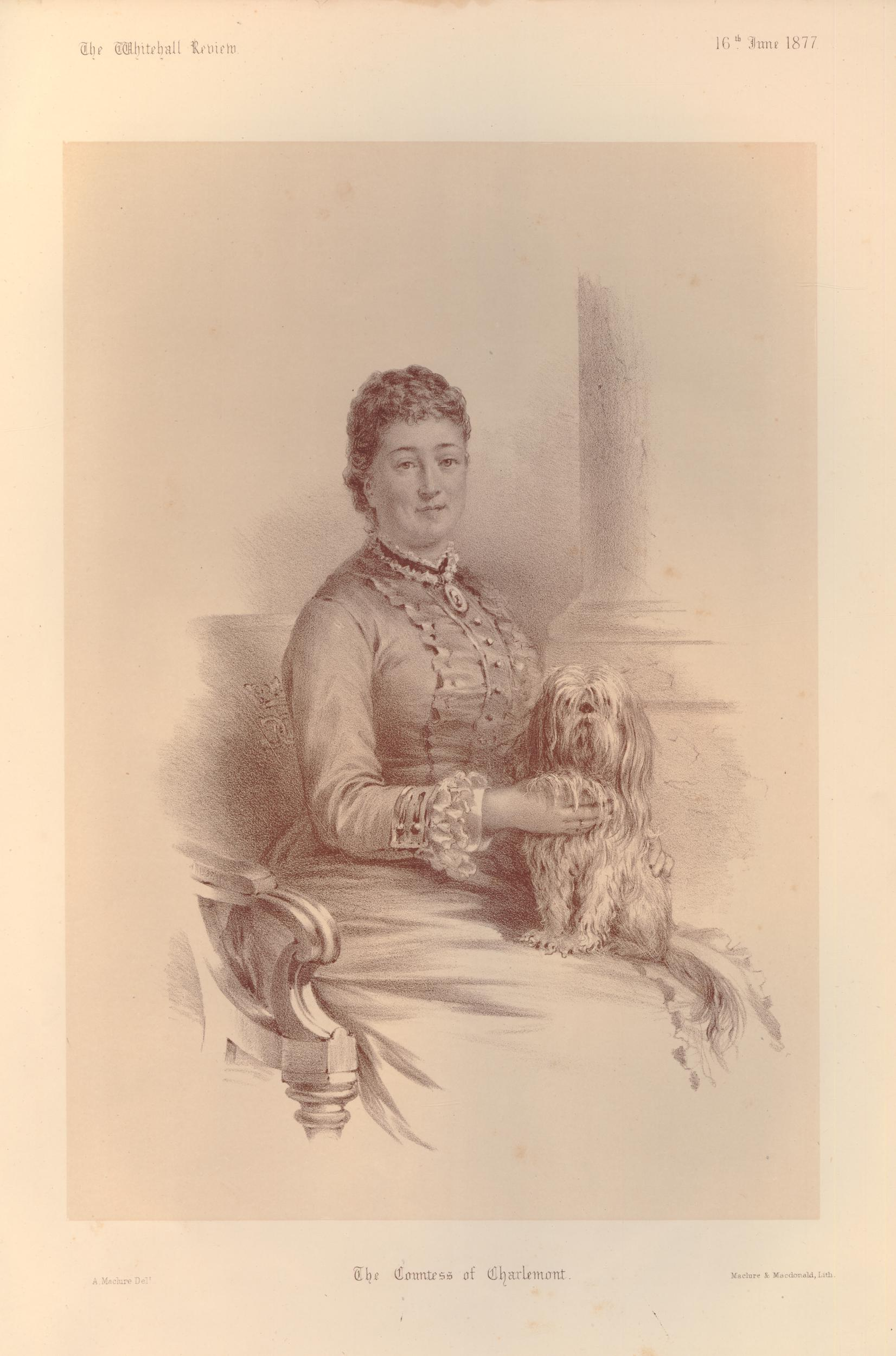 Portrait of Elizabeth, Countess of Charlemont; three quarter length to right; seated with dog on lap; illustration to 'The Whitehall Review' (1877) Lithograph